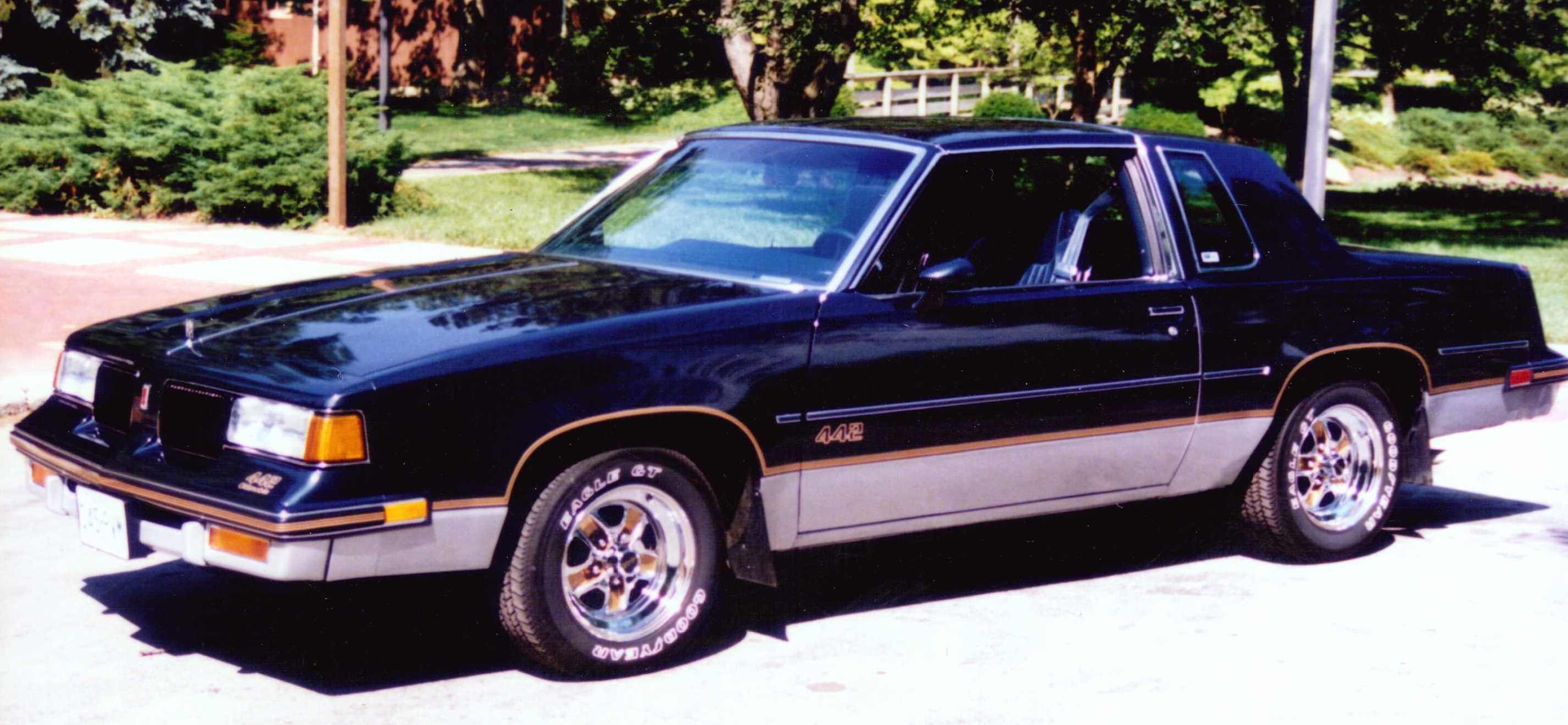 1987 Oldsmobile Cutlass Supreme 442